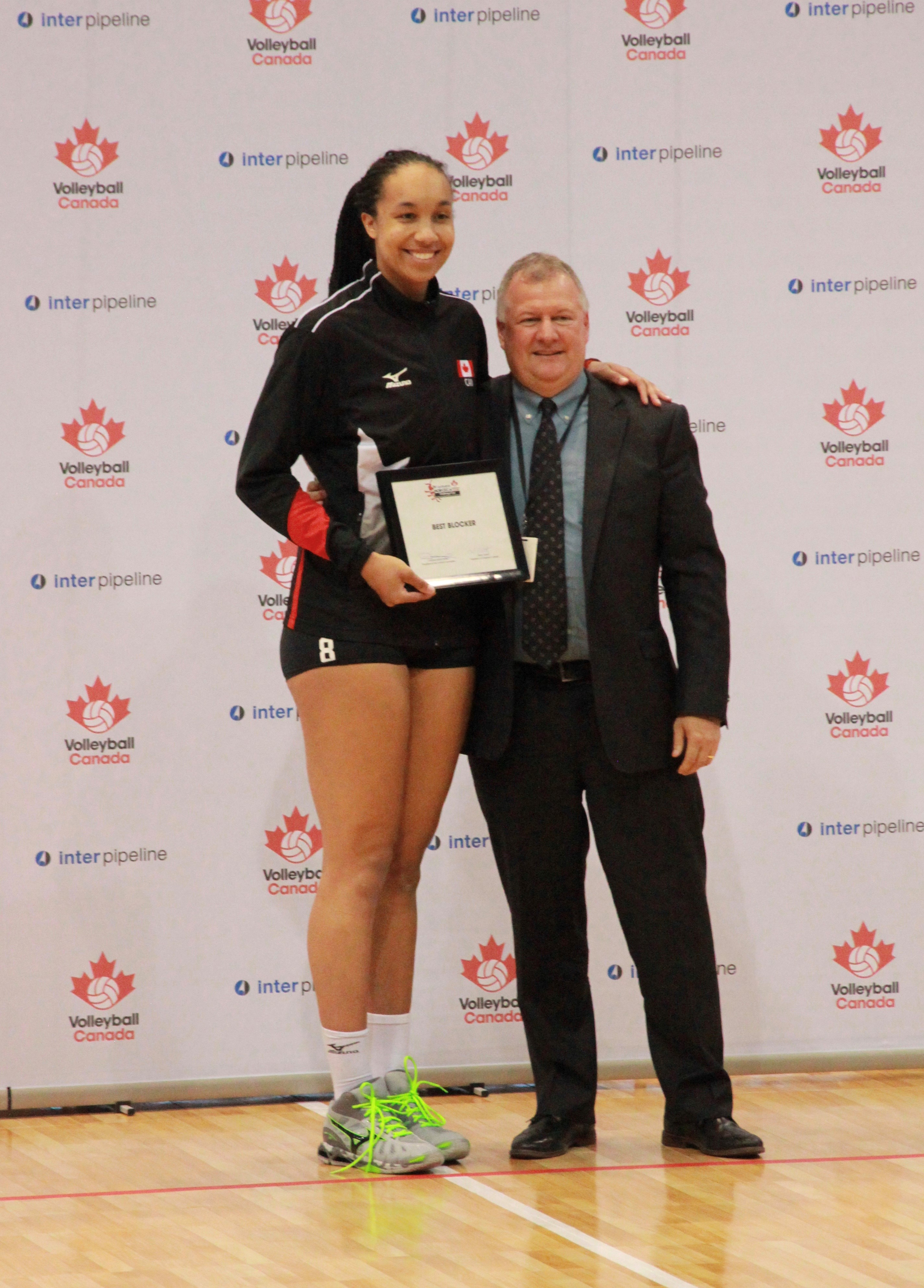 Alicia Ogoms Best Blocker Pan Am Cup 2018